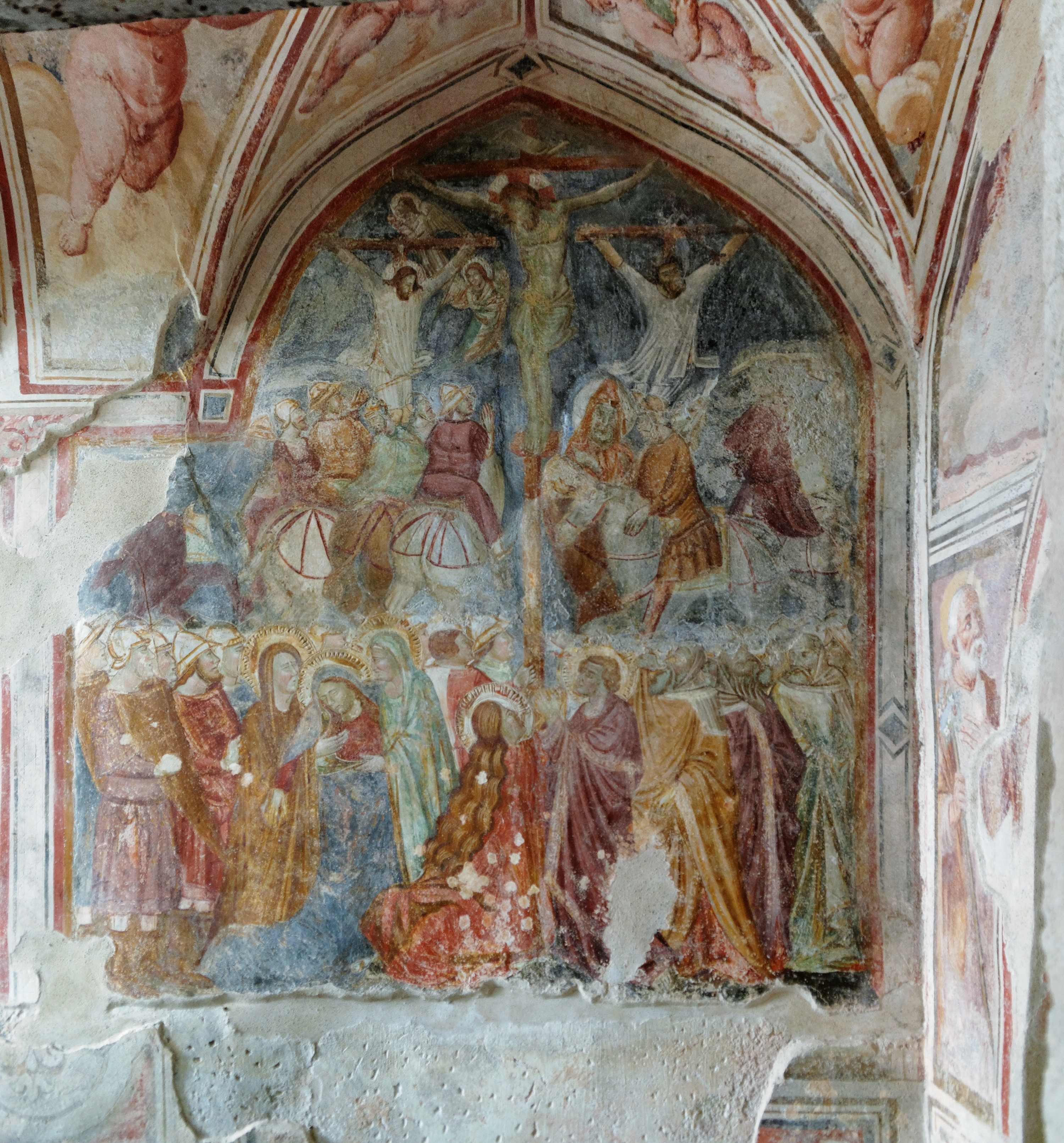 Amalfi, cathedral